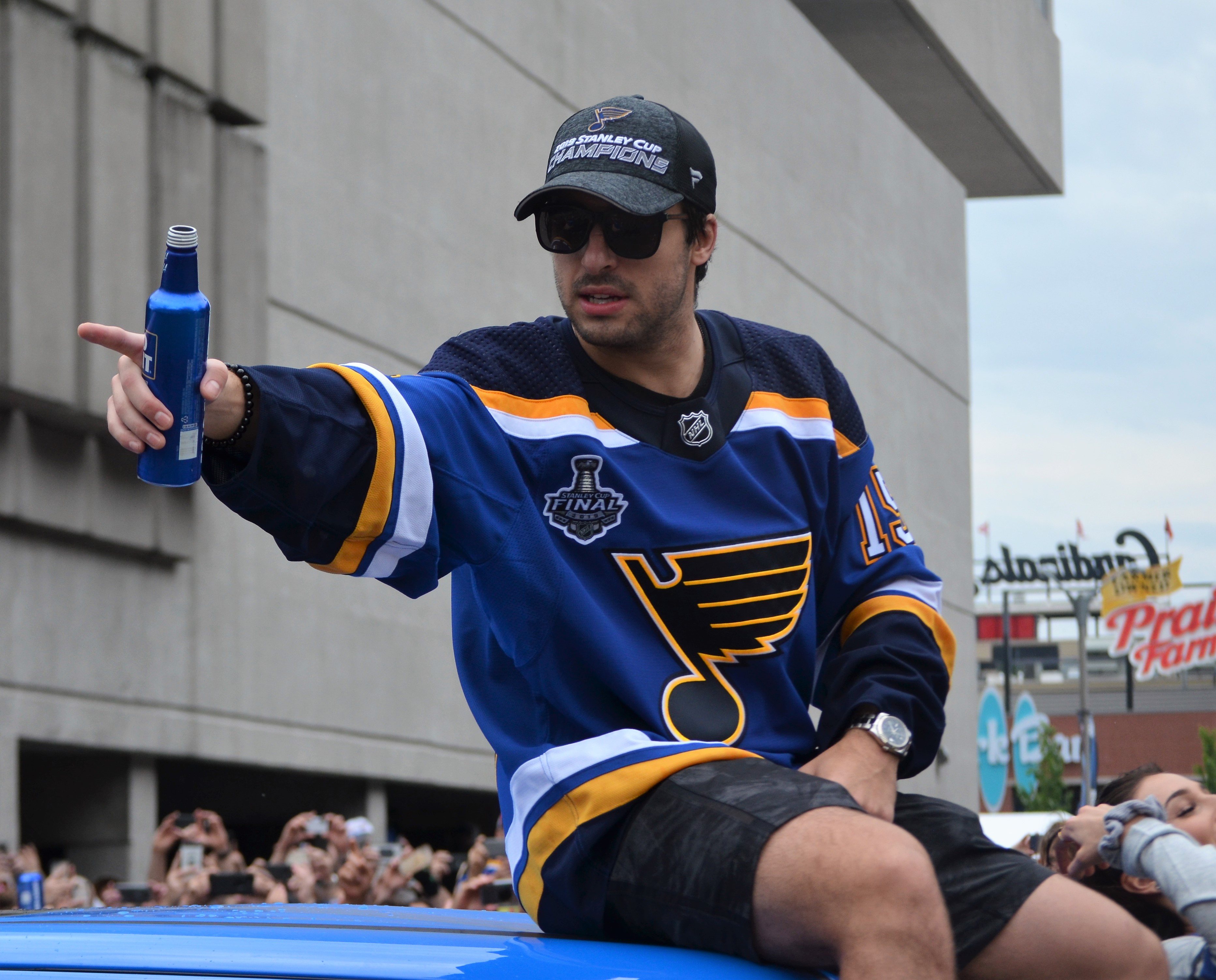 Robby Fabbri during the 2019 Stanley Cup Parade